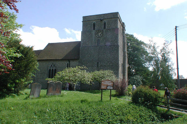 St Mary, Brook, Kent